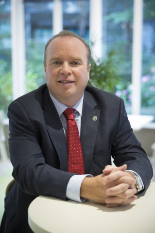 Martin Ekvad, President of CPVO